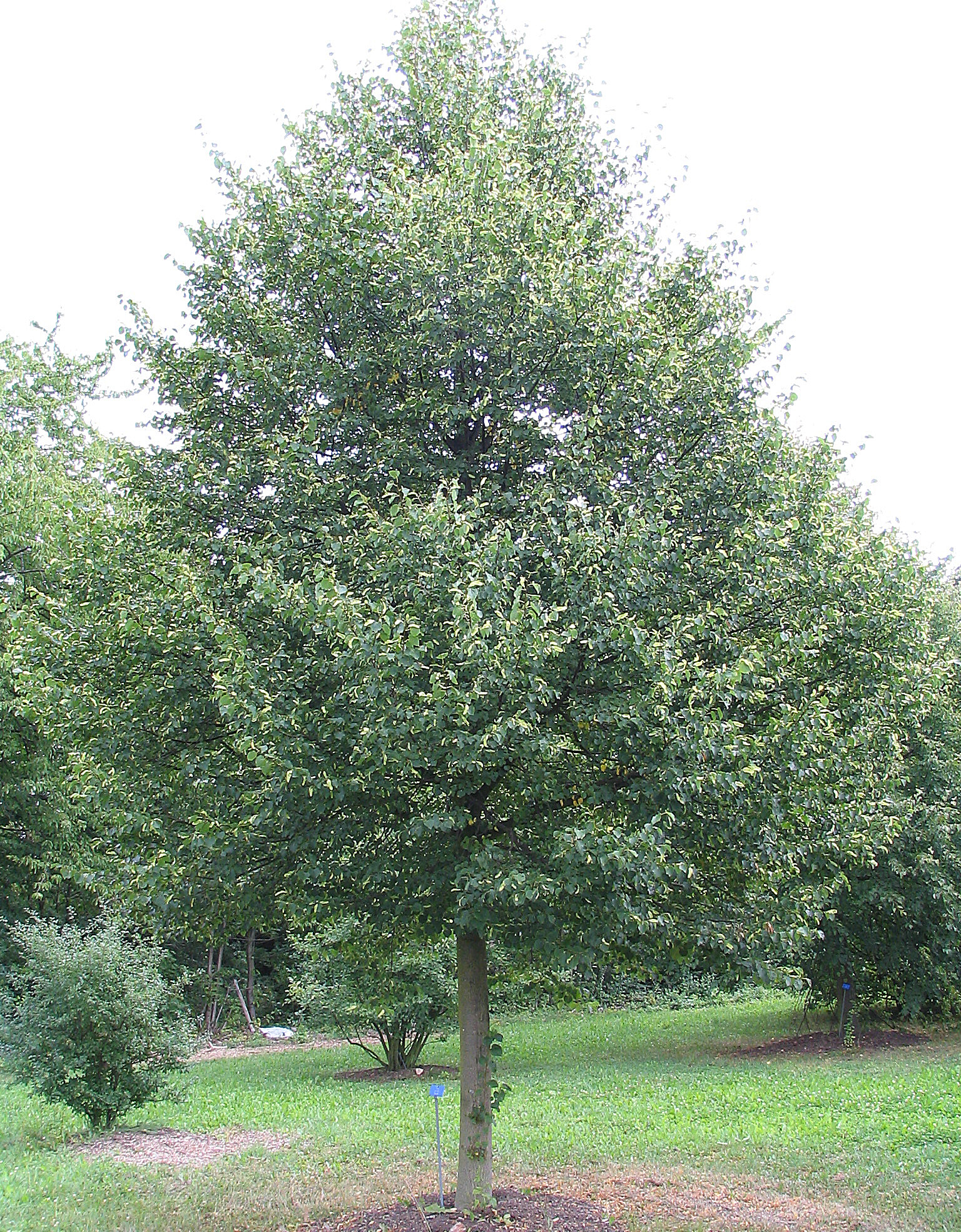 Tilia cordata 'Erecta'